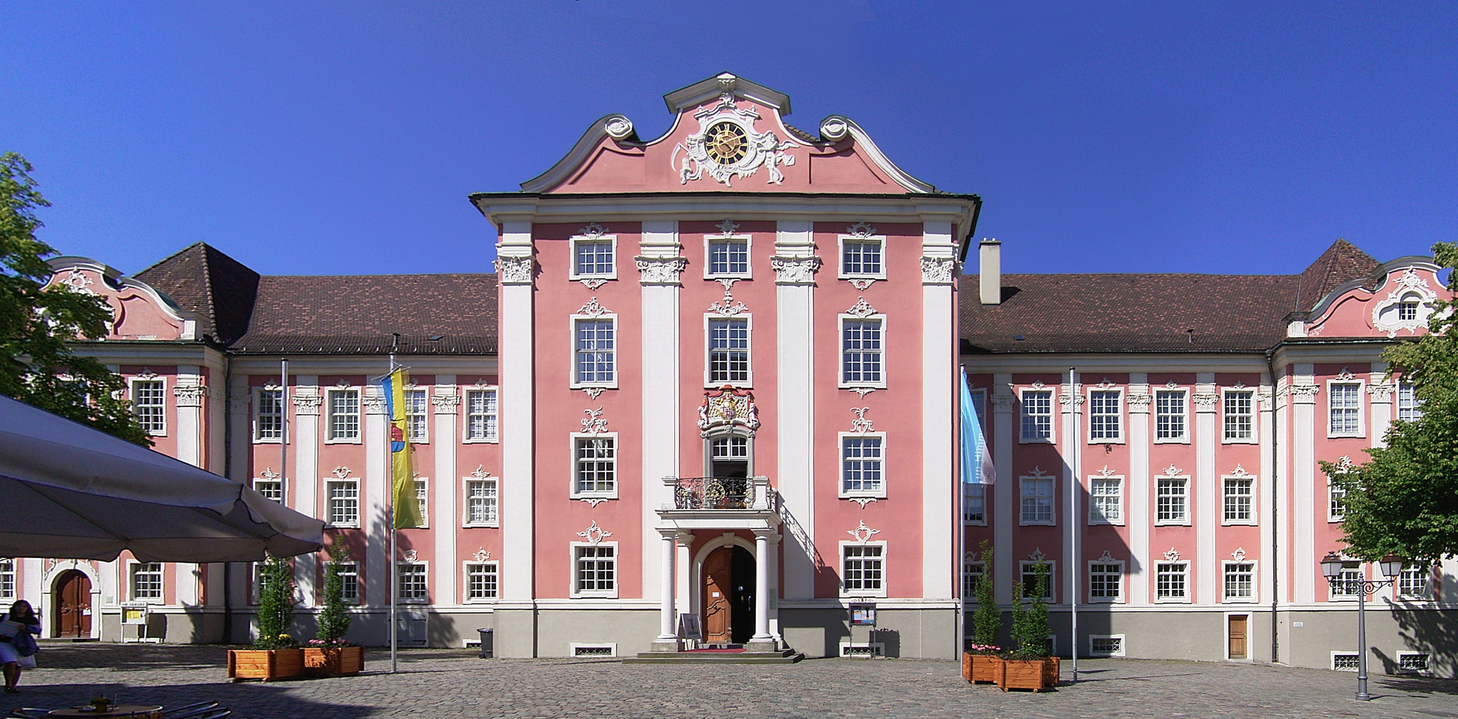 A panoramic View of the new palace in Meersburg